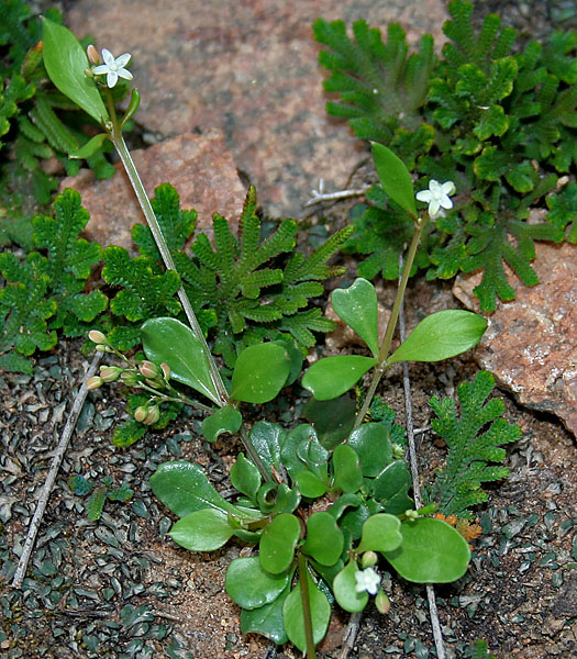 Mollugo pentaphylla ? with Selaginella bryopteris- - at Deer Park in Shamirpet, Rangareddy district, Andhra Pradesh, India.